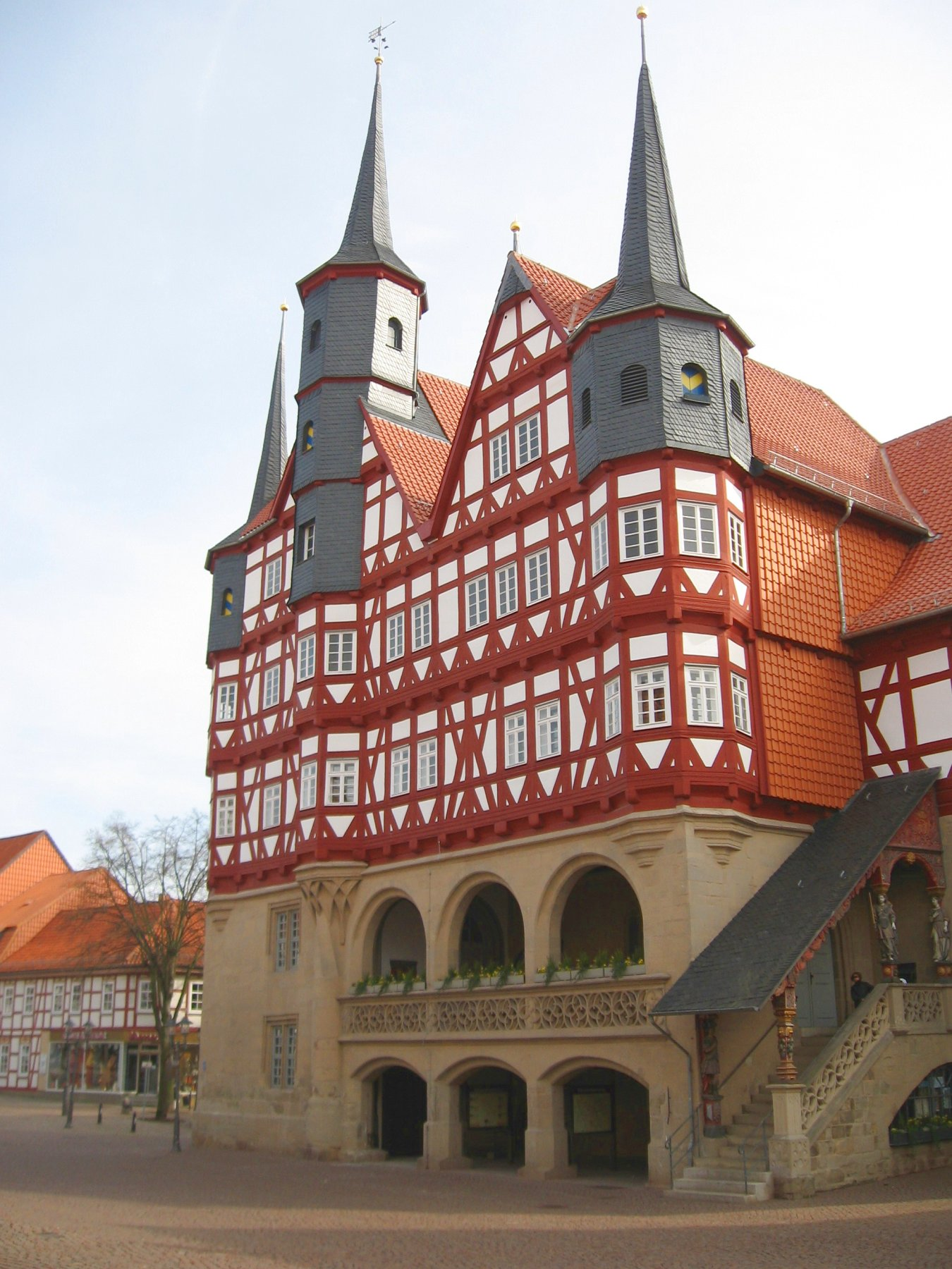 Germany / Duderstadt: town hall